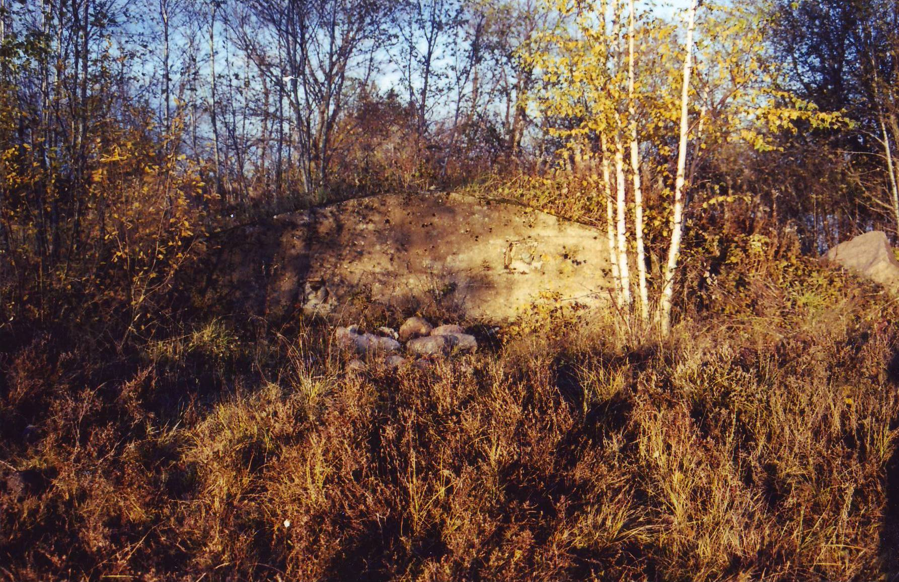 Padvariai barrow, Kretinga district, Lithuania